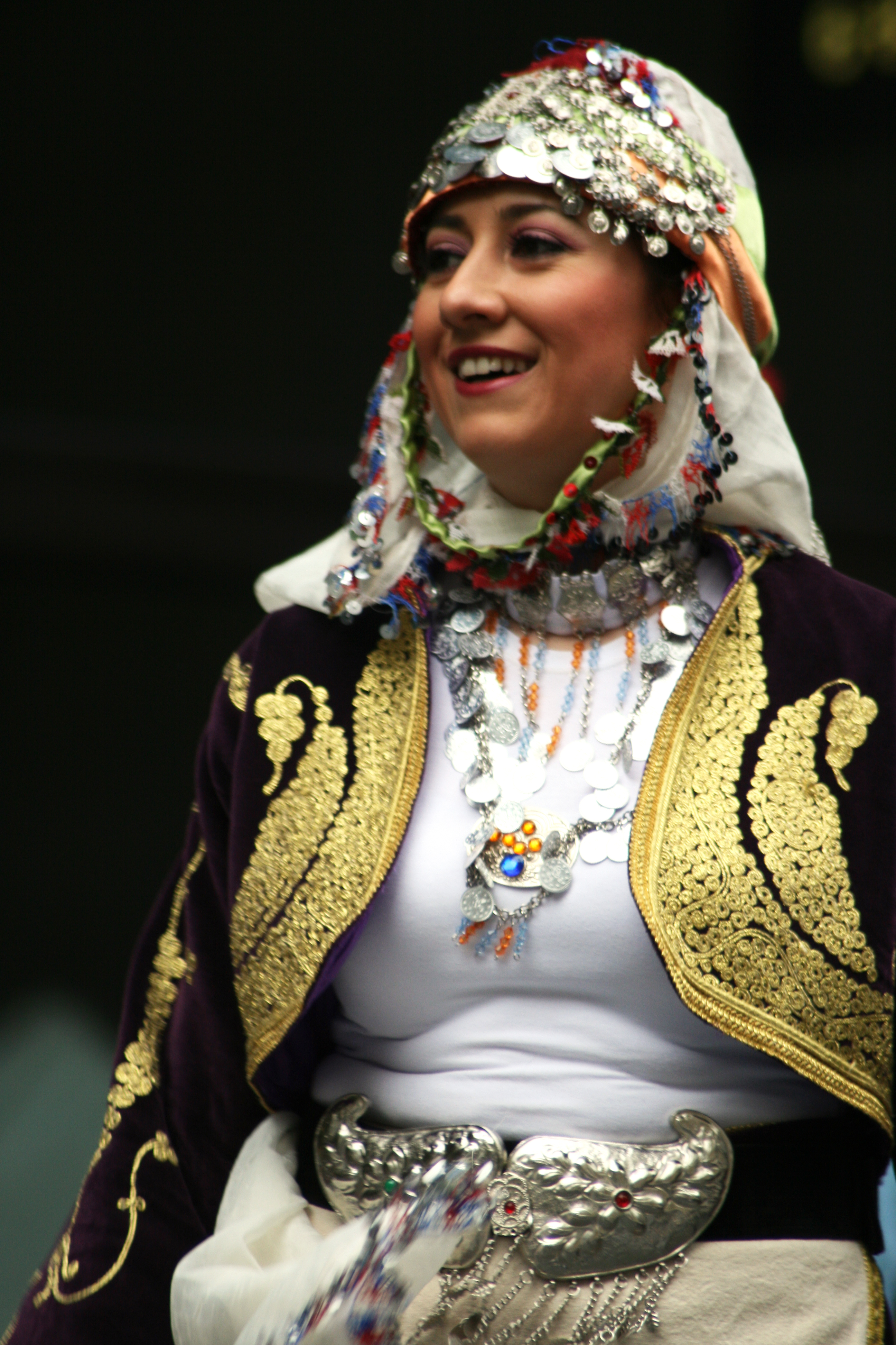 Chicago Turkish Festival '09.